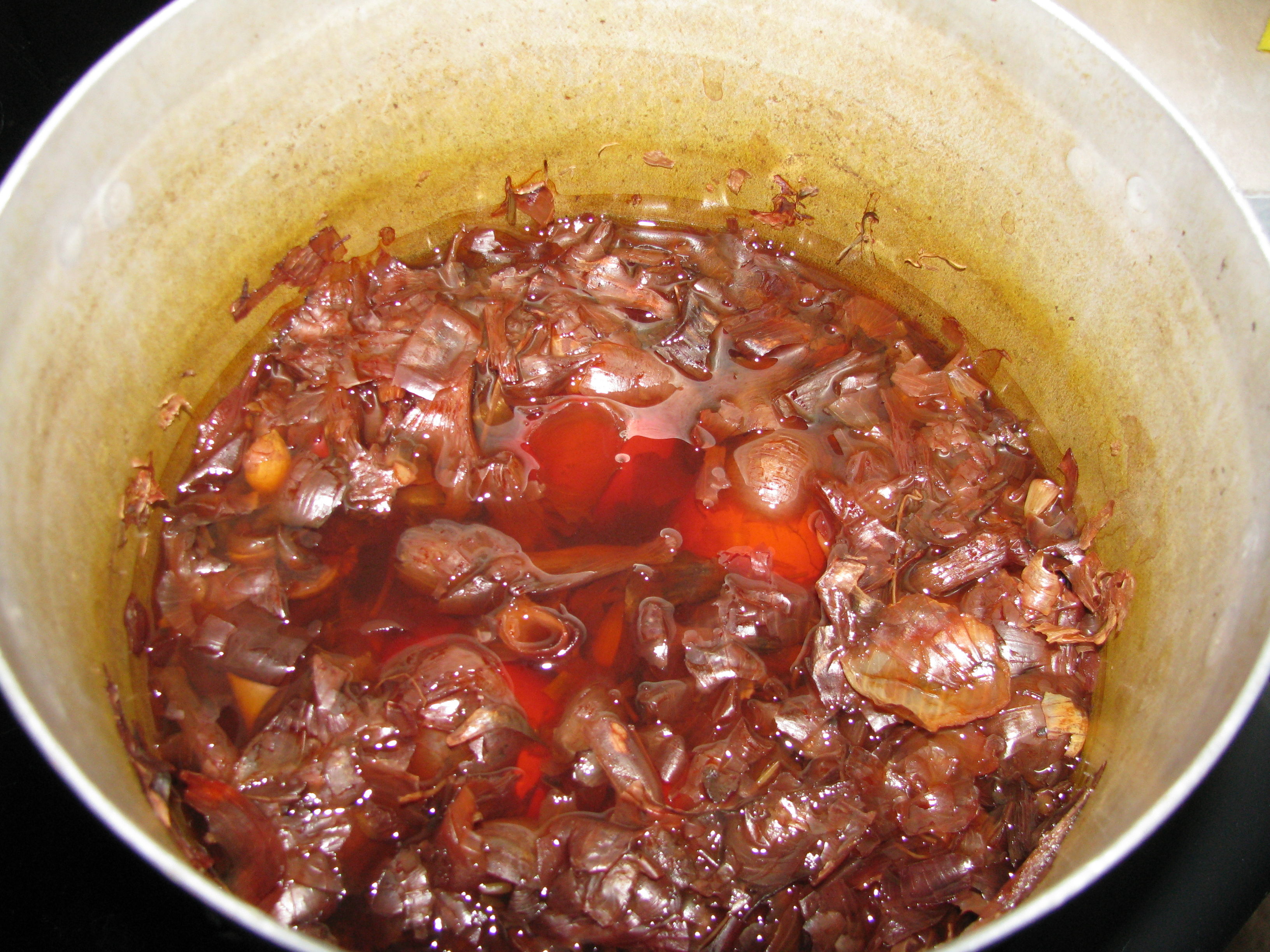 Cooking of red Easter eggs in onion skin, to get a golden to red color